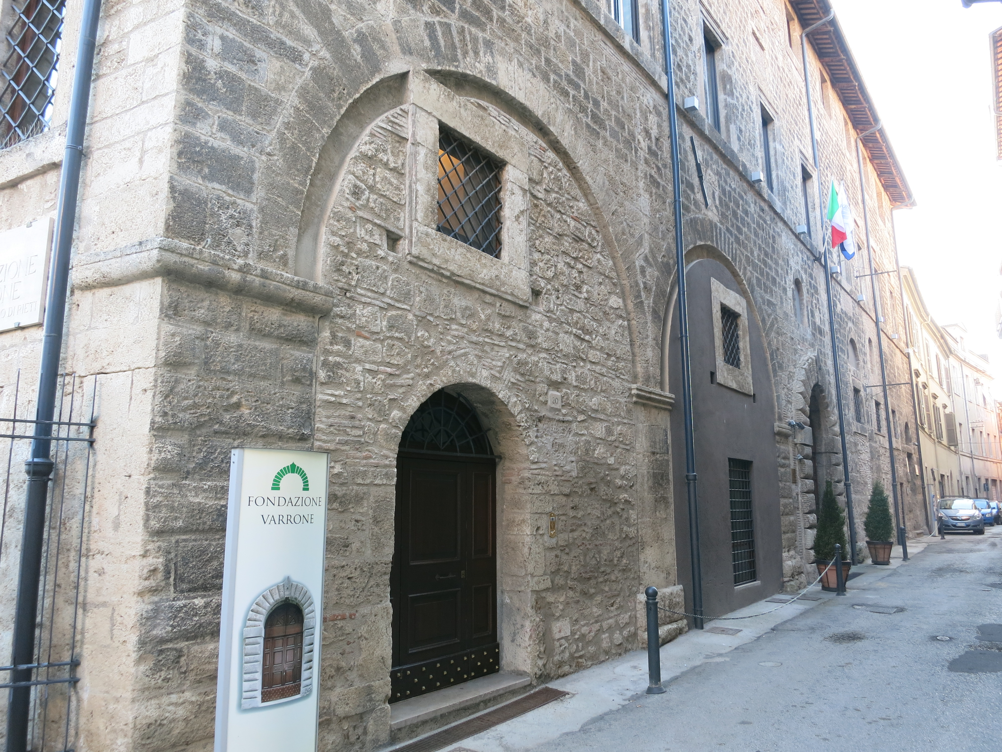 Potenziani Fabri Palace - Rieti, Lazio, Italy